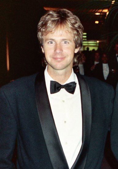 Dana Carvey and Mike Clark at the Governor's Ball following the 41st Annual Emmy Awards, 9/17/89